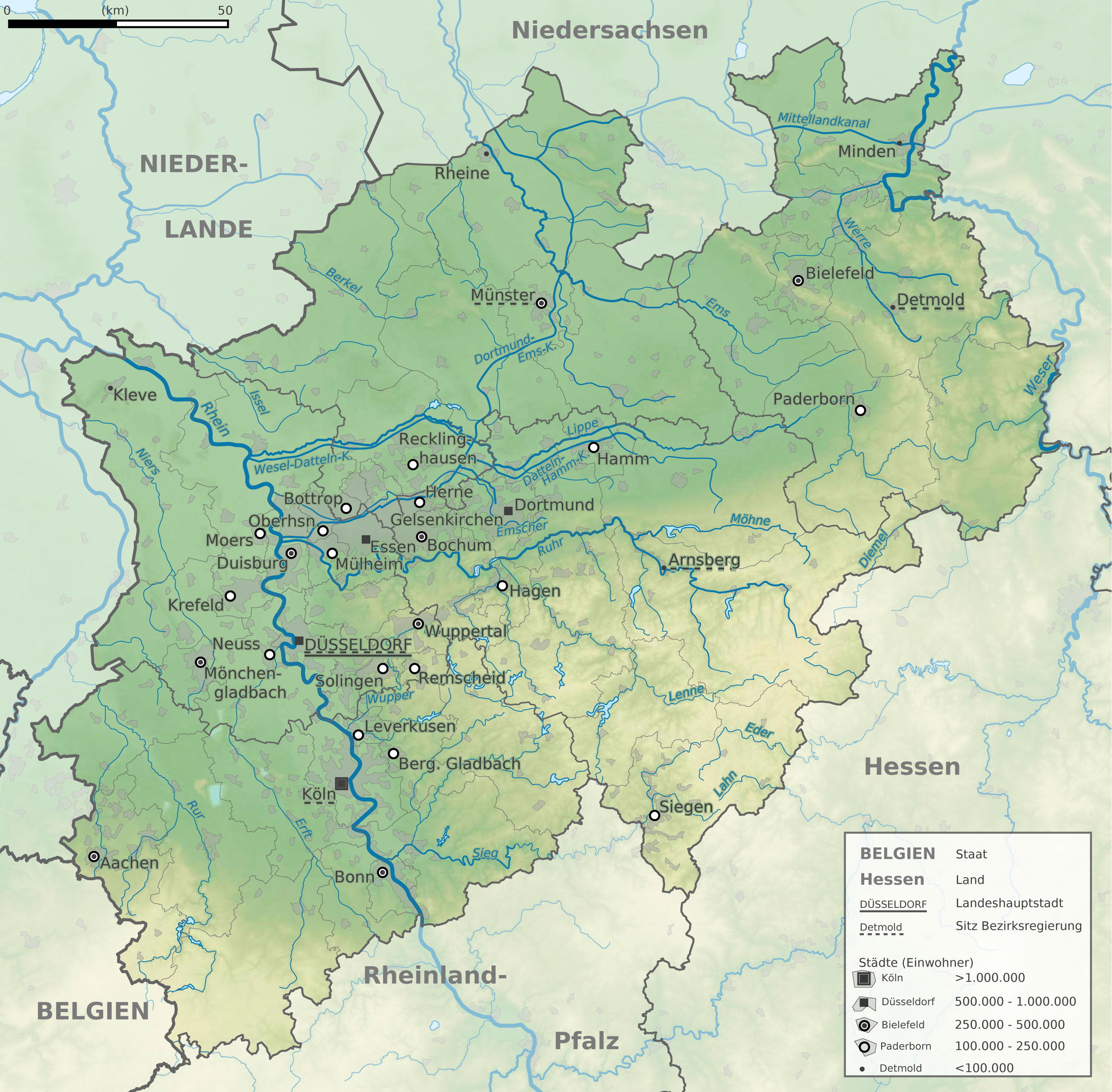 Topographic map of North Rhine-Westphalia, Germany.